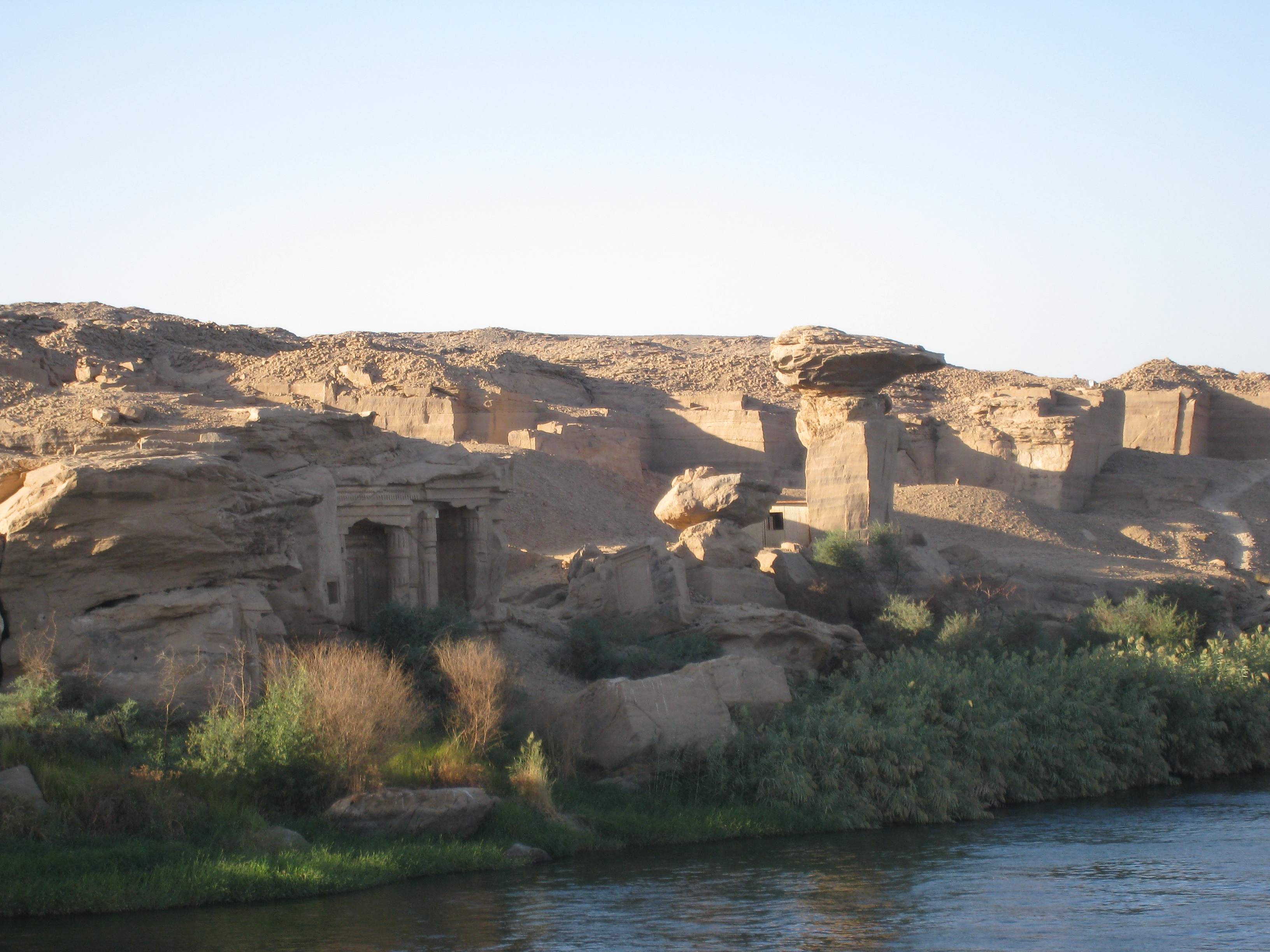 View on Gebel el-Silsila ruins from Nile